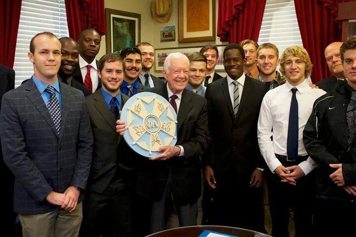 Jimmy Carter Honorary Induction Fall 2014